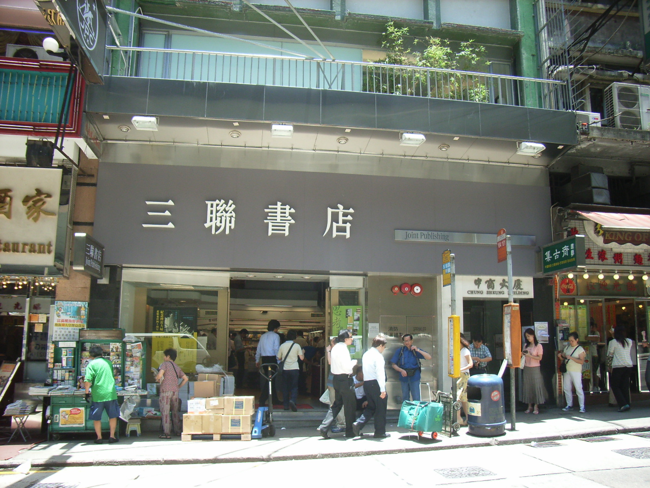 域多利皇后街, Queen Victoria Street, Central, Hong Kong By KennethTom